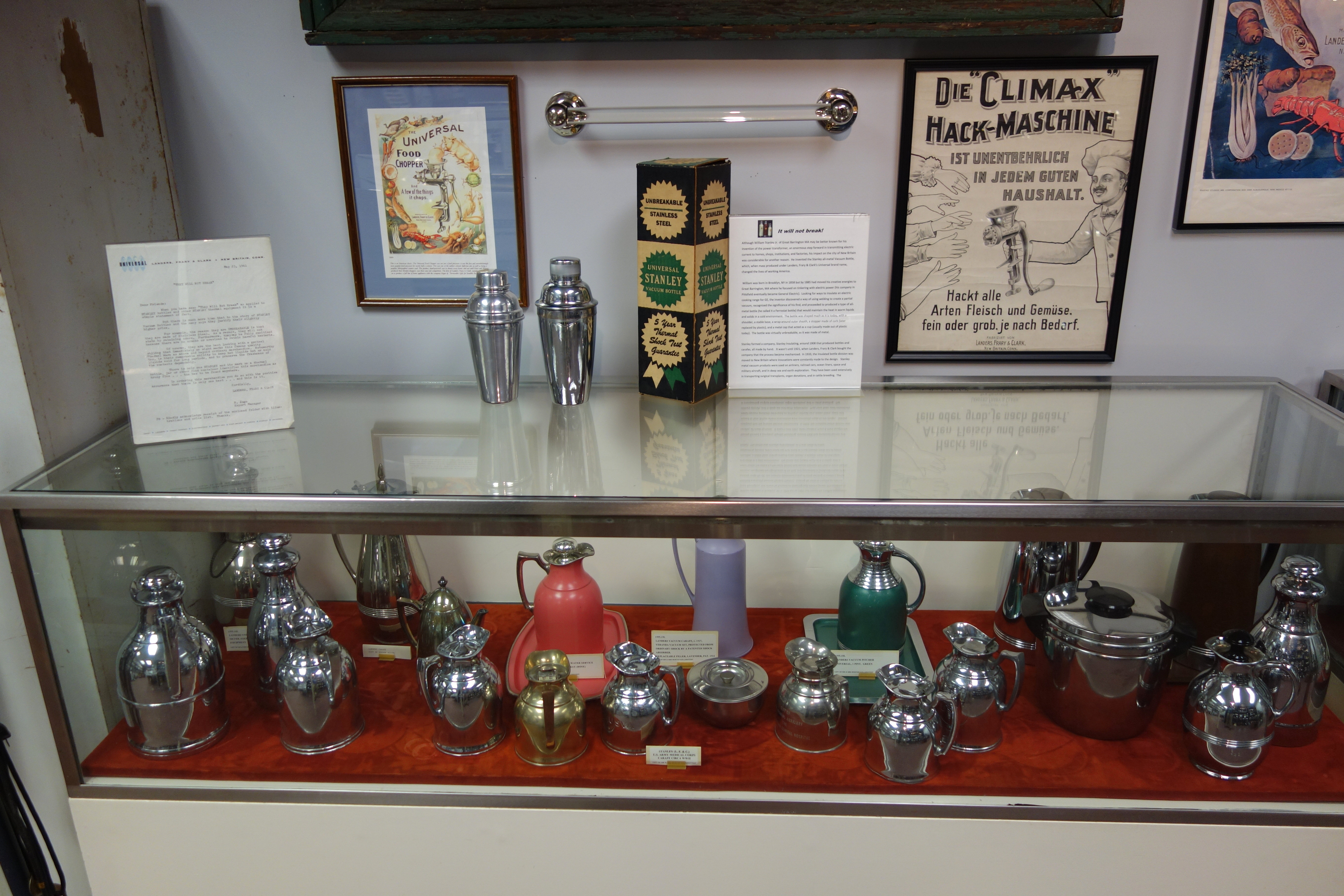 Exhibit in the New Britain Industrial Museum, New Britain, Connecticut, USA.